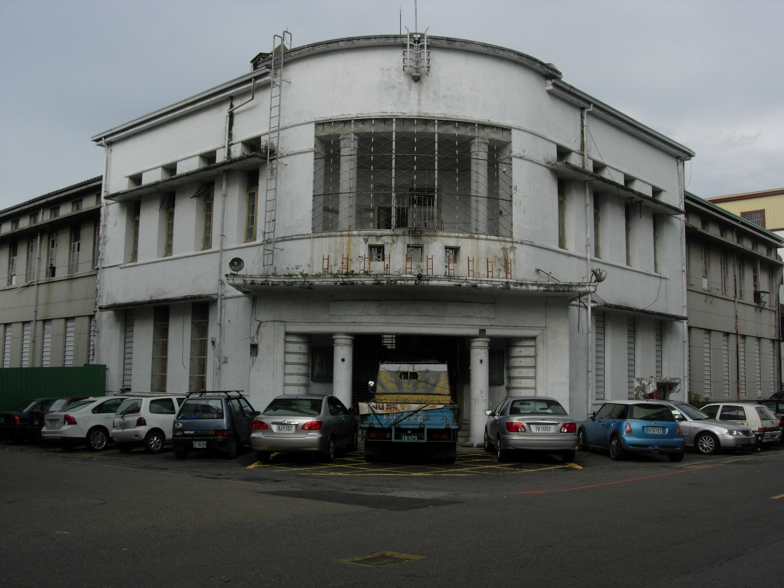 NantouTaxoffice中文（台灣）: 南投稅務出張所，